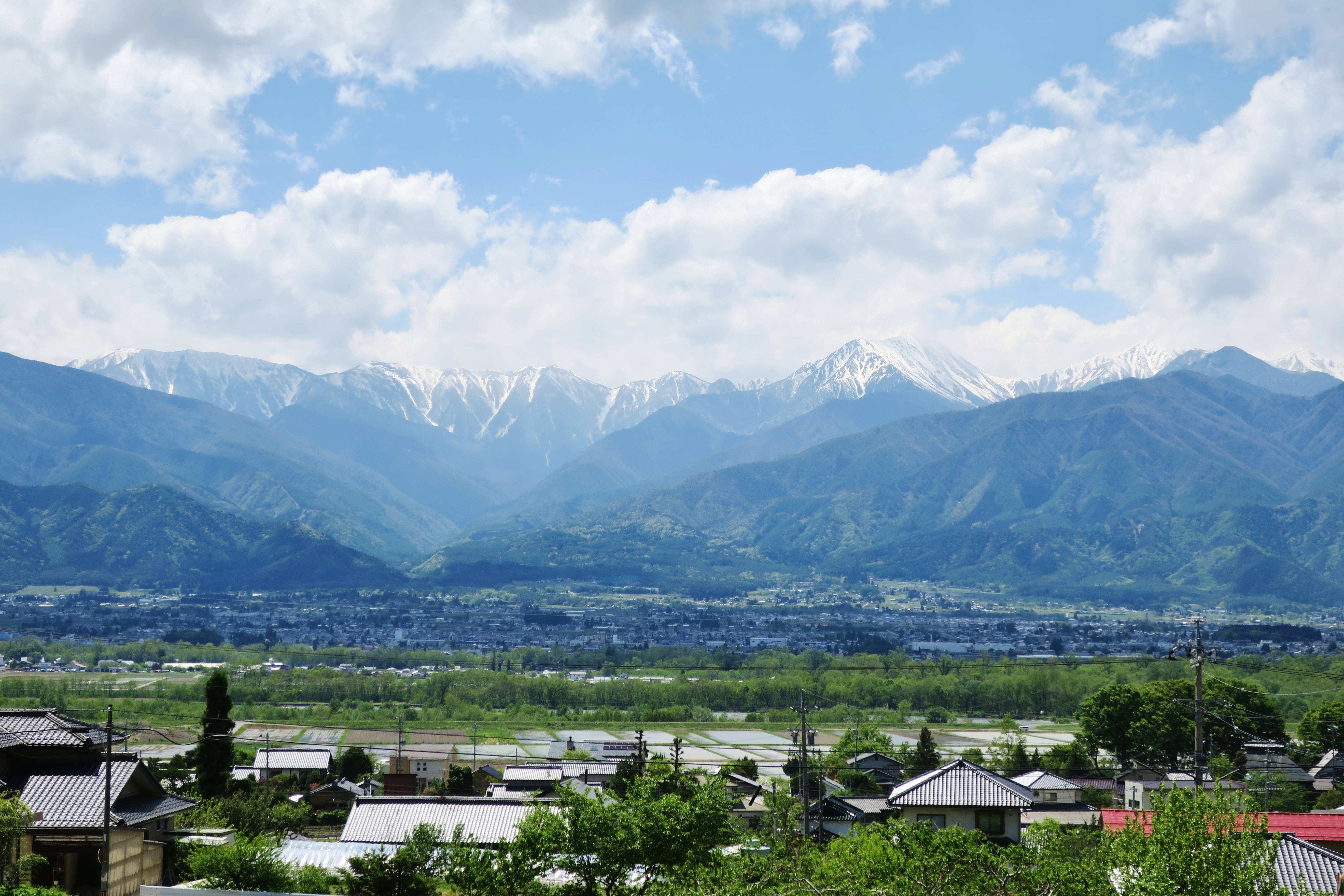 View from Nagaminesō.